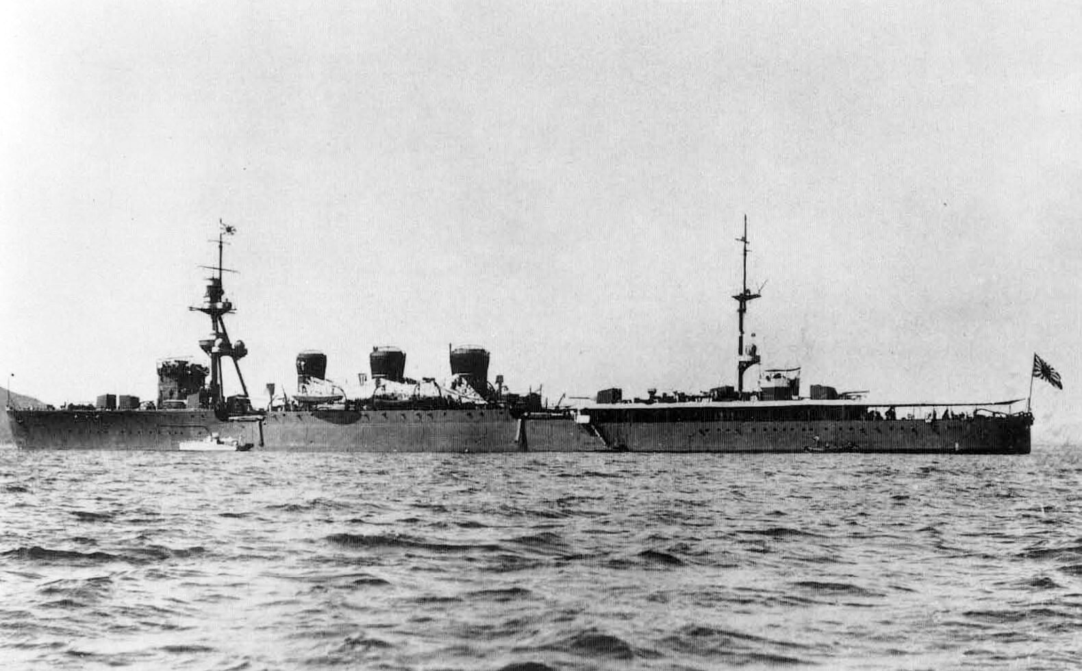 Japanese light cruiser Kuma on patrol off of Tsingtao, 1930.